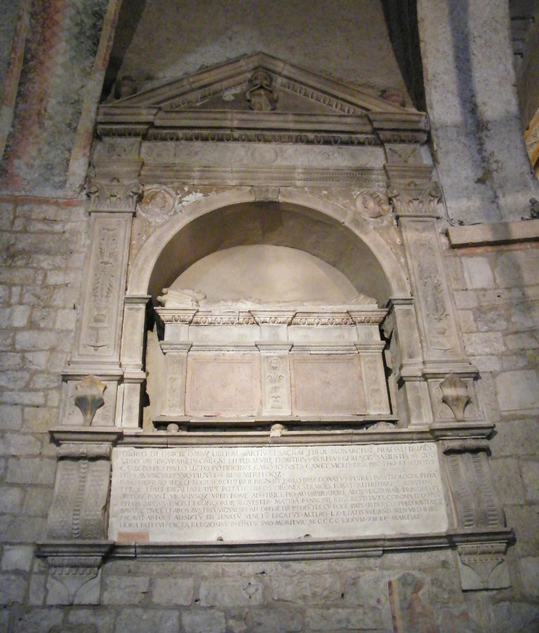 Domenico de Domenici. Grave in Duomo Vecchio, Brescia.